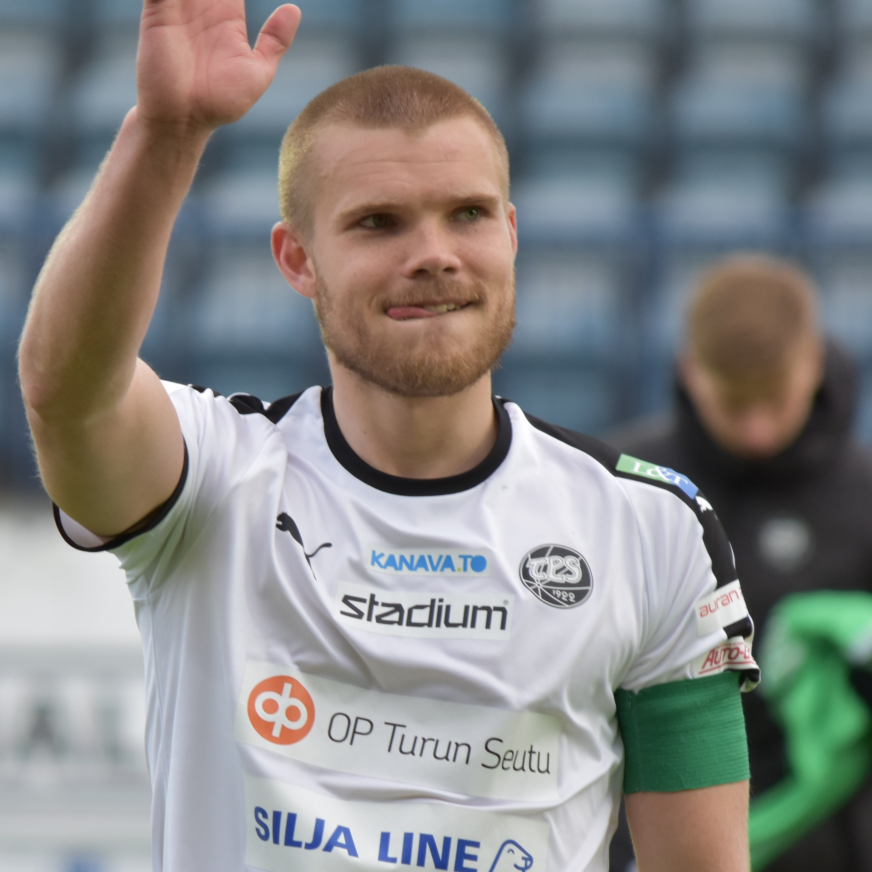 Football player Rasmus Holma (TPS)